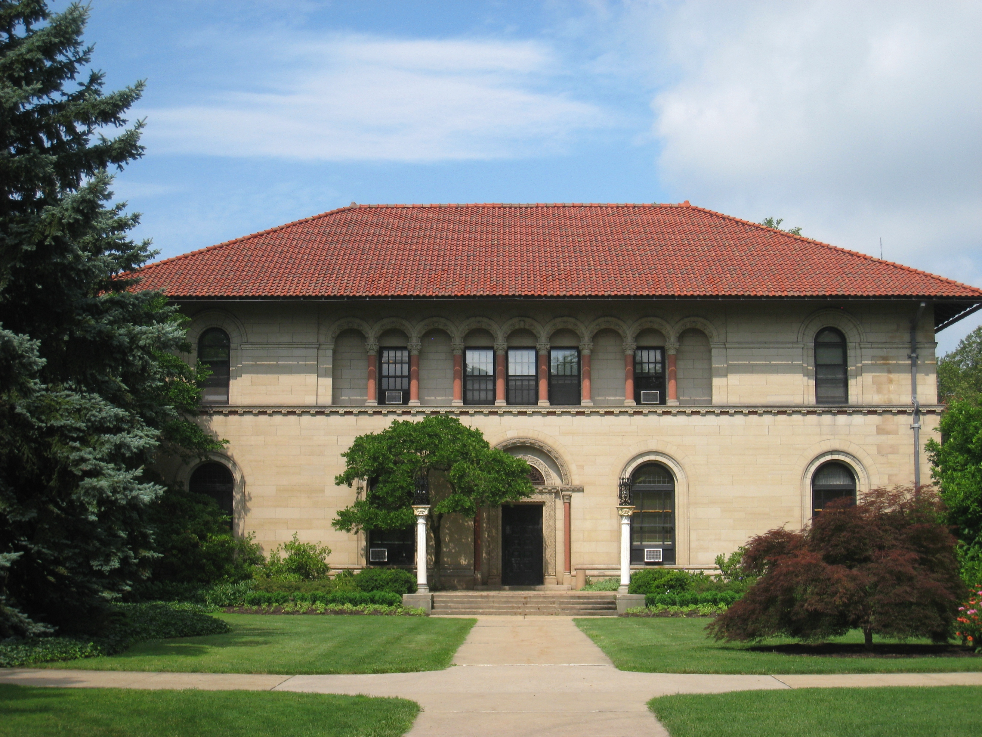 Cox Administration Building, Oberlin College, Oberlin, Ohio, USA. Architect Cass Gilbert, 1915. I took this photograph.